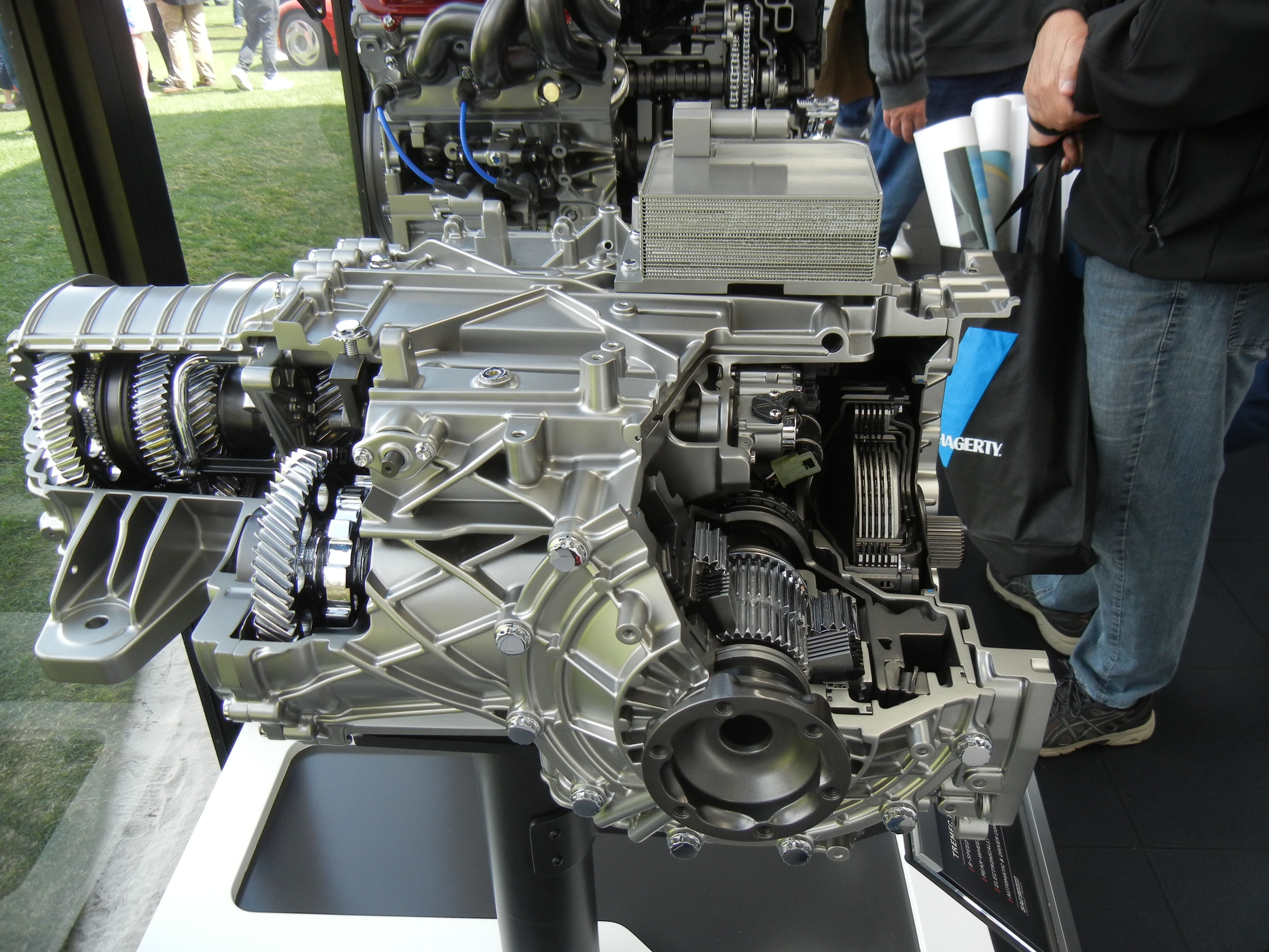 gearbox Corvette C8 DCT